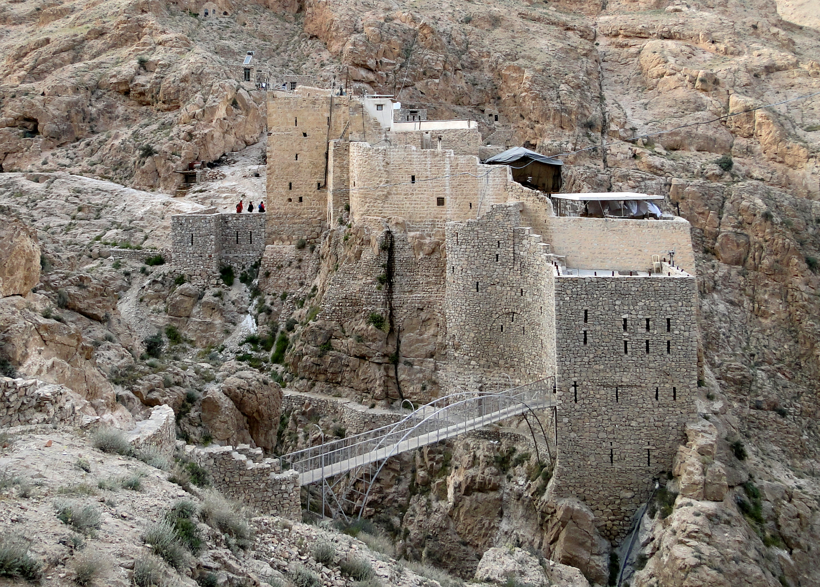 View of the main (and oldest) building of Deir Mar Musa al-Habashi or Monastery of Saint Moses the Abyssinian, Syria